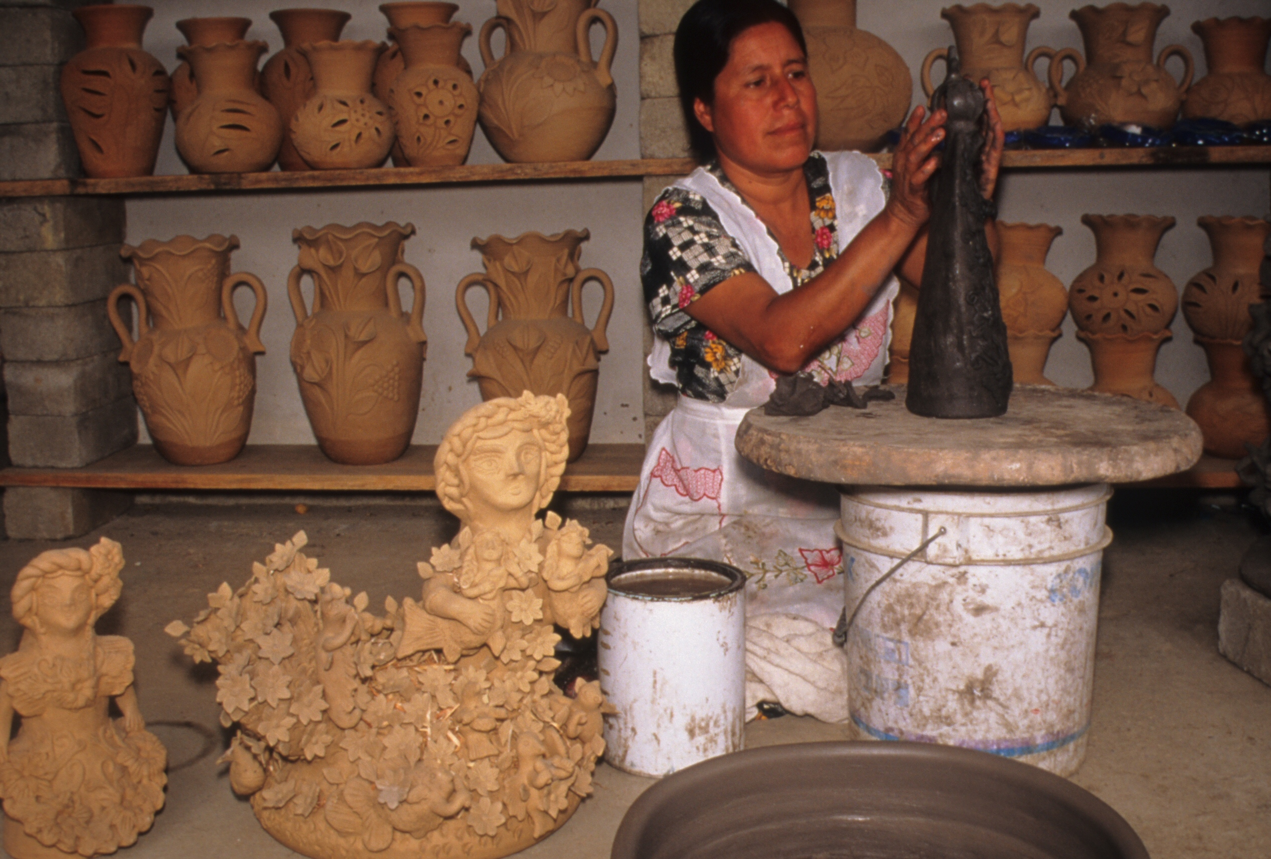 Irma Blanco of Santa Maria Atzompa, Oaxaca, Mexico